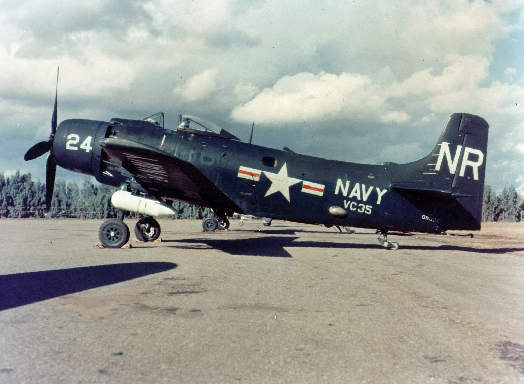 A U.S. Navy Douglas AD-1Q Skyraider electronic countermeasures aircraft (BuNo 09386) of composite squadron VC-35 Night Hecklers, circa 1950.